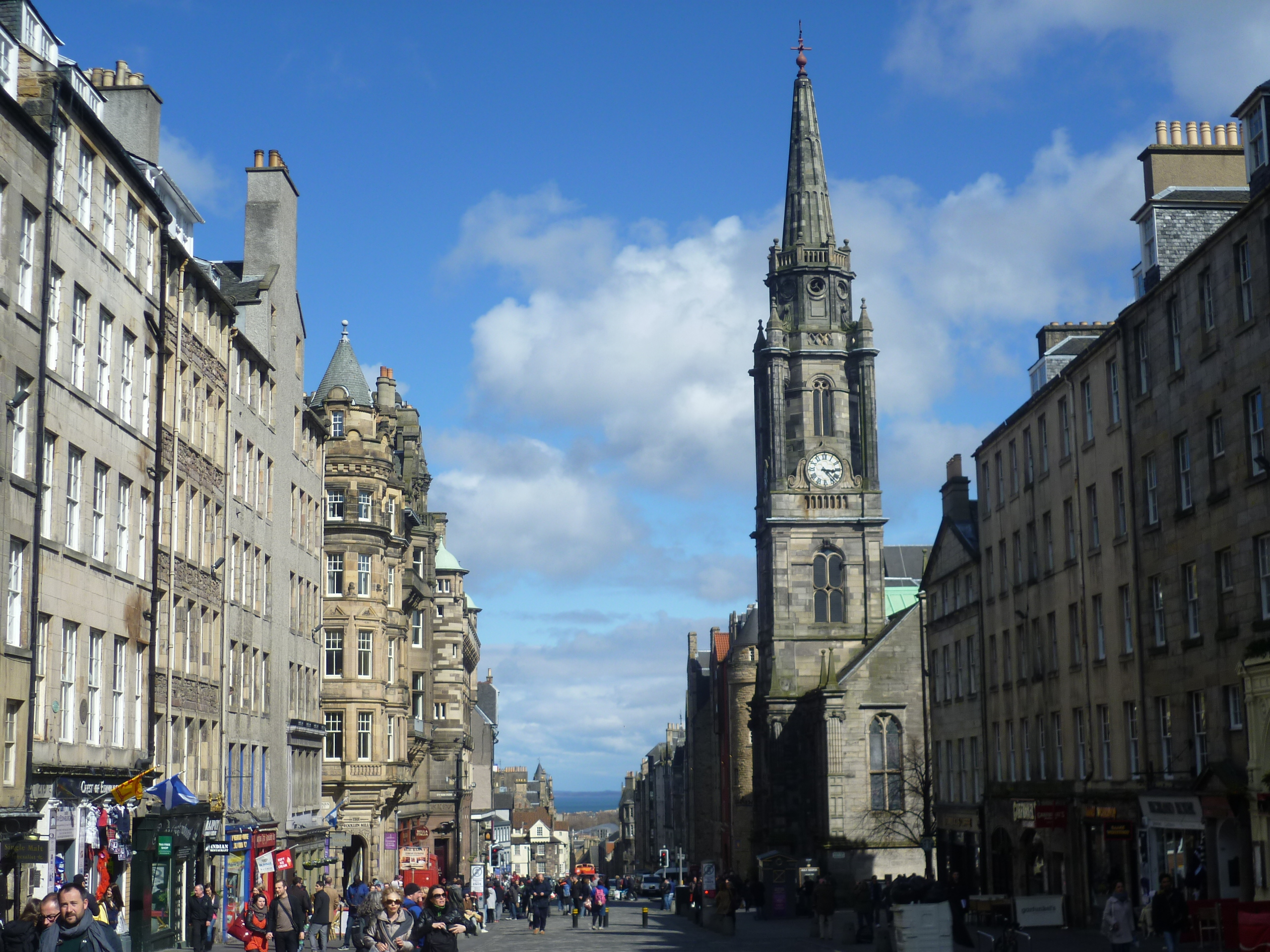 219-179 High Street (on the left), Edinburgh